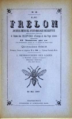 Front cover of the journal Le Frelon